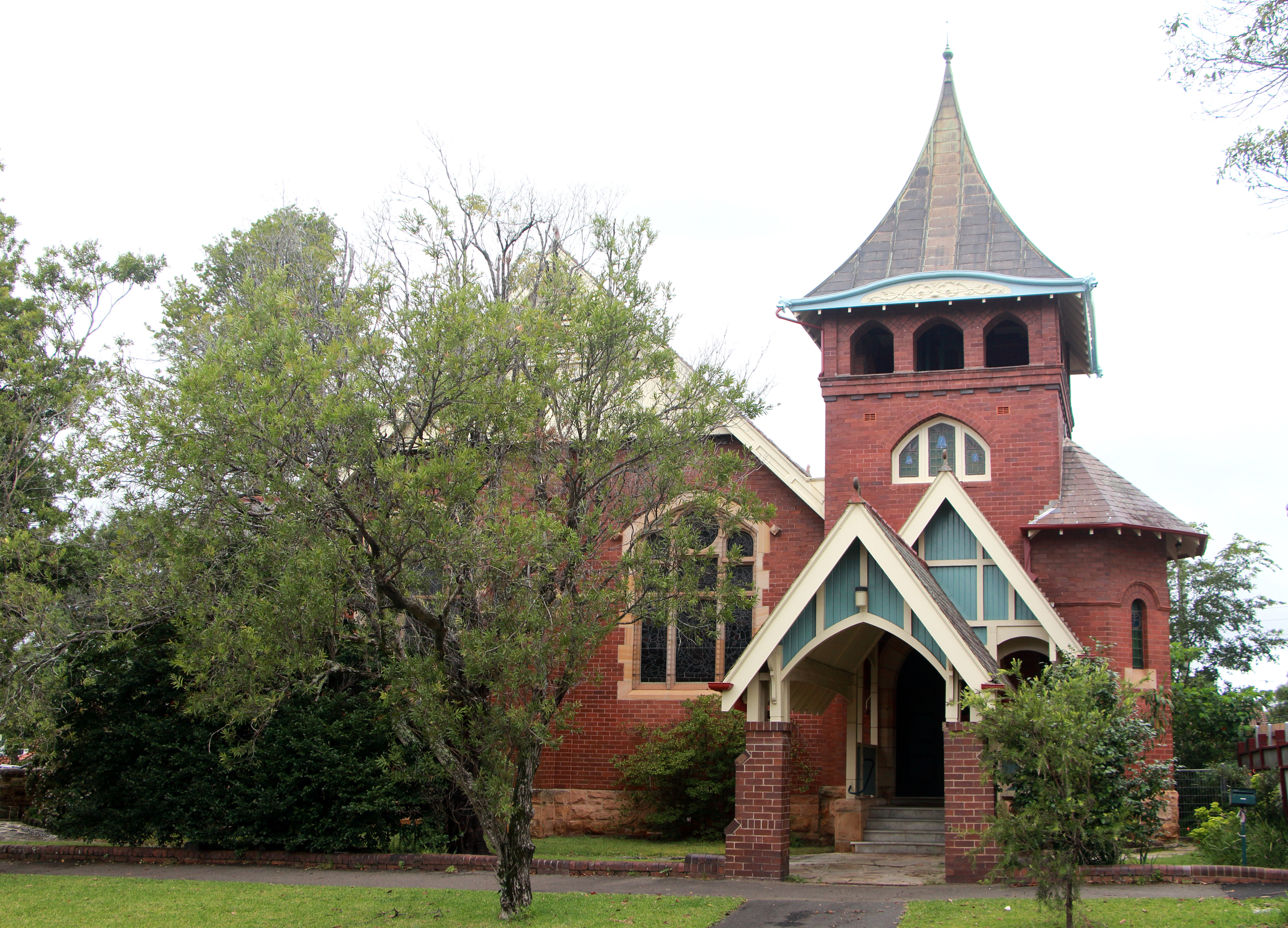 Tryon Road Uniting Church, 33 Tryon Road, Lindfield, Sydney. Tryon Road Uniting Church is a heritage-listed church building located in Lindfield, a suburb of Sydney, Australia. It was designed by William Slade and built in 1914 by W. 'Ossie' Knowles. It is also known as Lindfield Wesleyan Methodist Church.